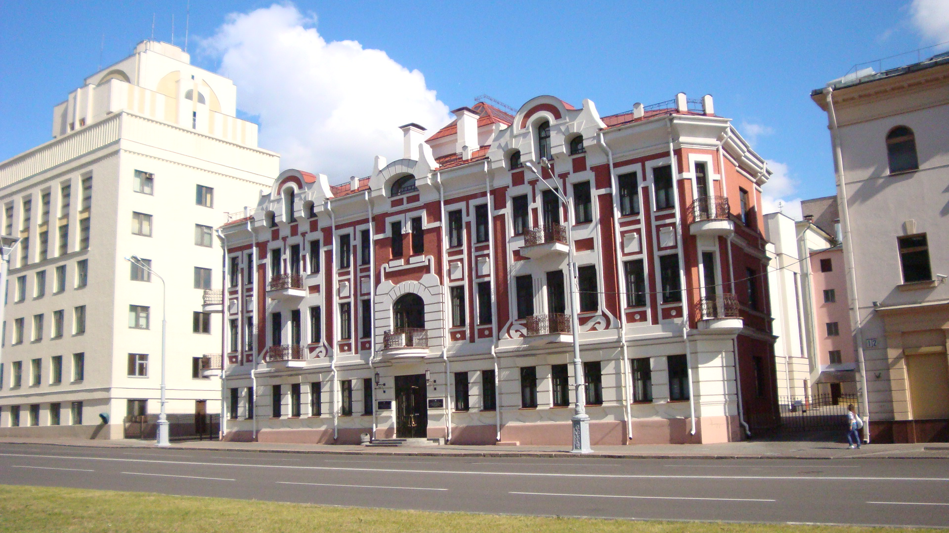 Minsk city (Belarus), Saveckaya street 14, Janicki's house, 2008 AD